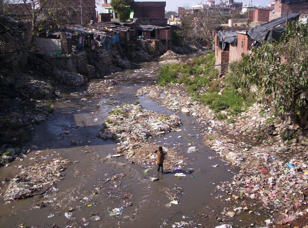 Slum shacks and a rubbish-laden river, with a child in the middle, in the Indian Himalayas.Meanwhile, 1 mile away...